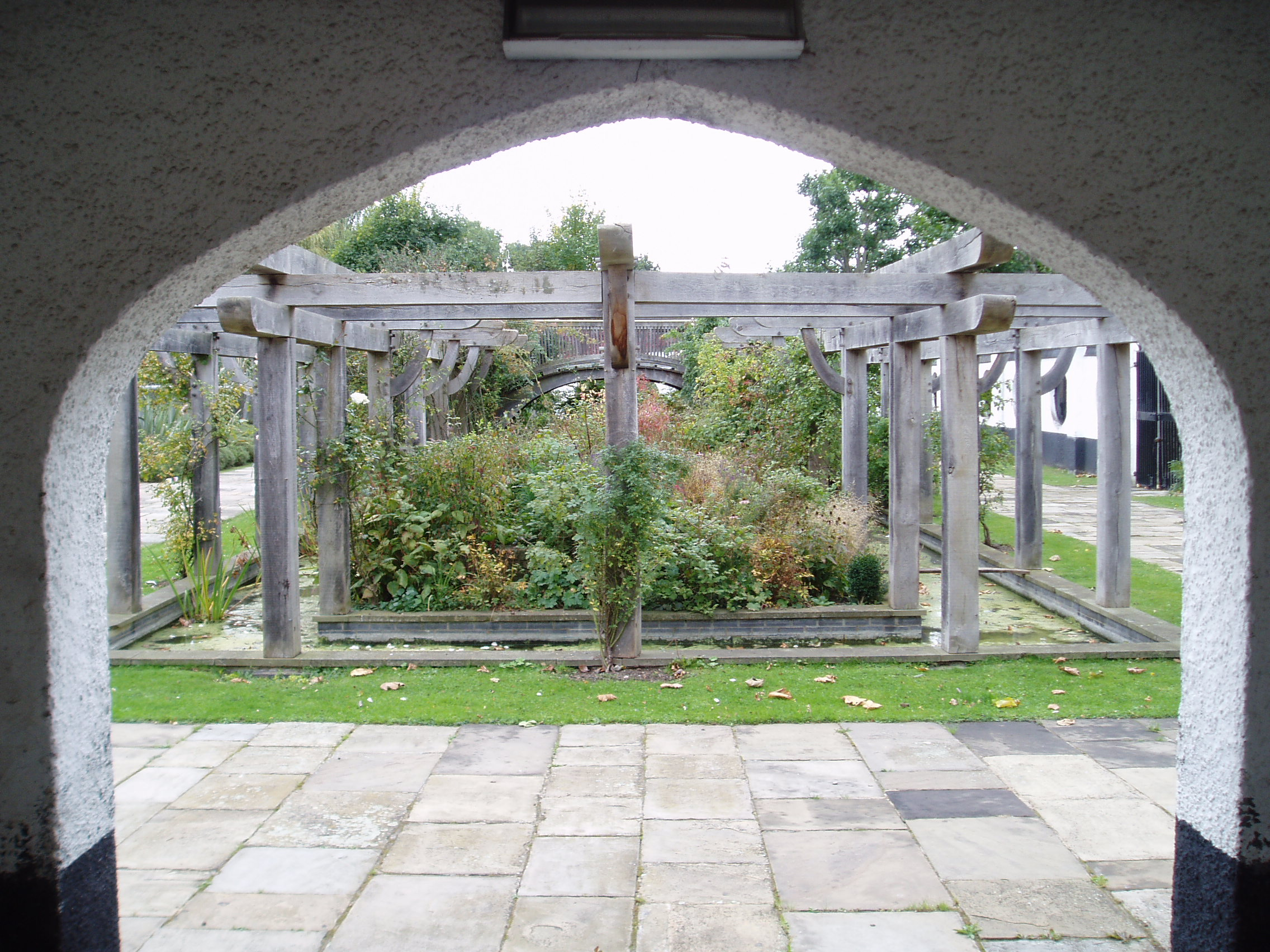 The Emslie Horniman Pleasance recreation grounds (1911) by C.F.A. Voysey Photo taken on a walk around North Kensington with the Twenteith Century Society on 4th October 2008, led by Suzanne Waters.